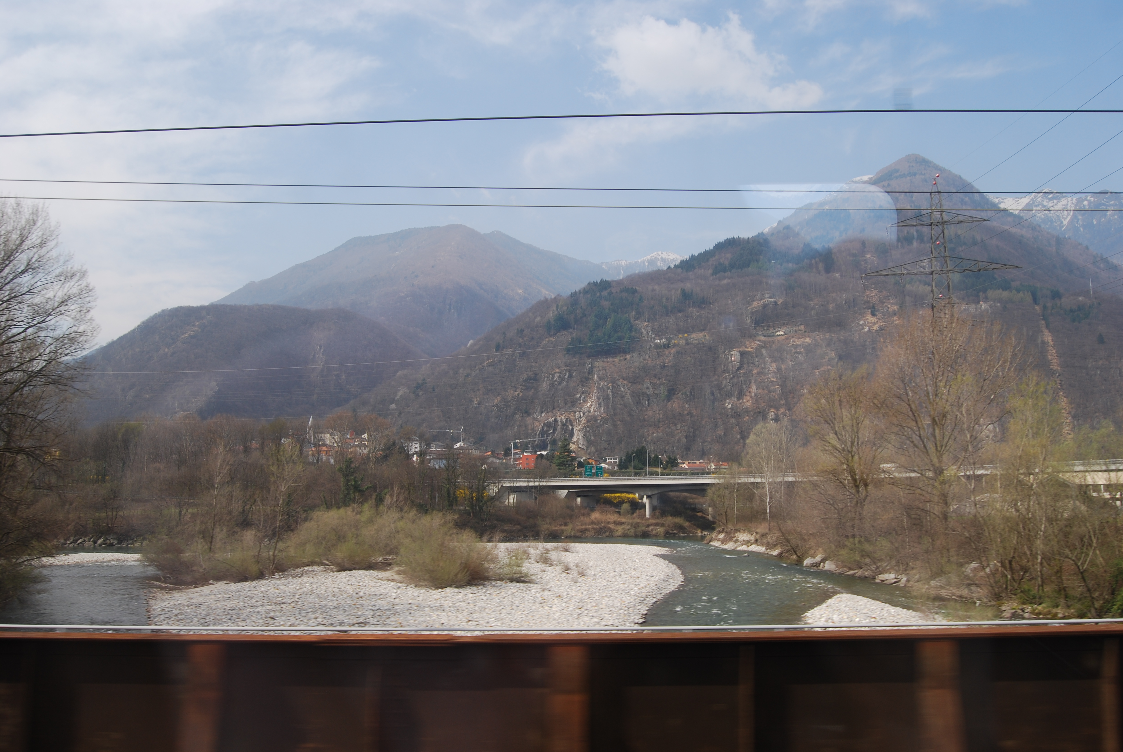 Arbedo-Castione and Gorduno, canton of Ticino, SwitzerlandEsperanto: Arbedo-Castione kaj Gorduno, Kantono Tiĉino, Svislando